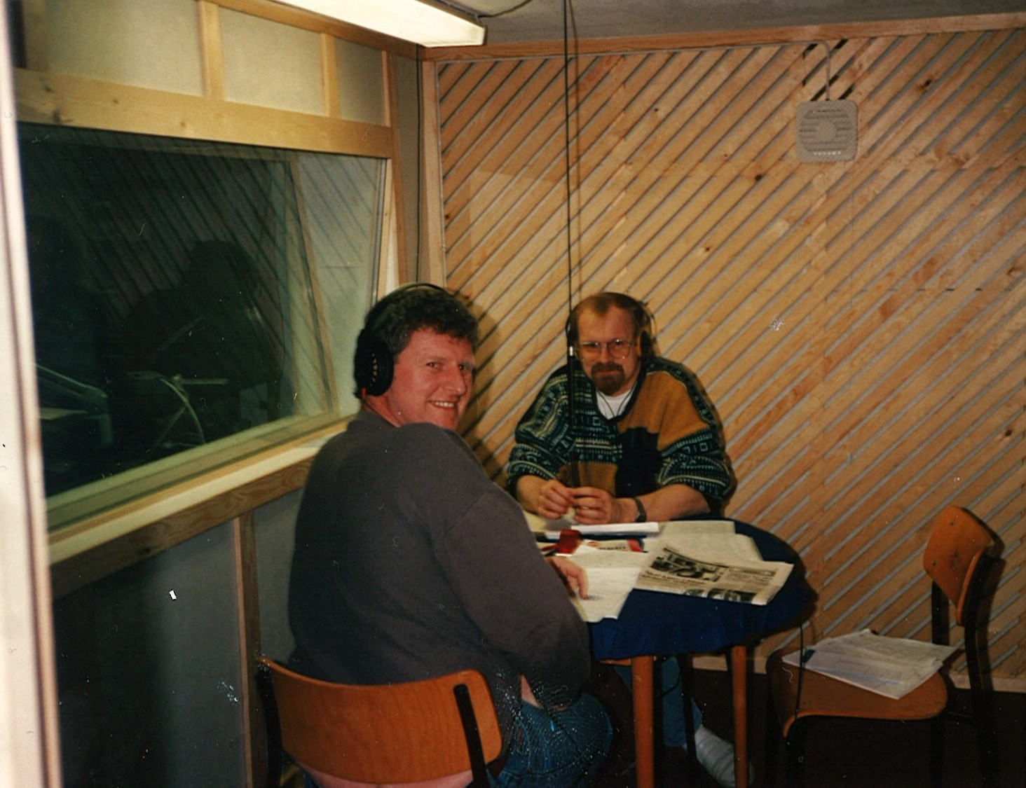 From Studio A in Radio Pollen - Arendal